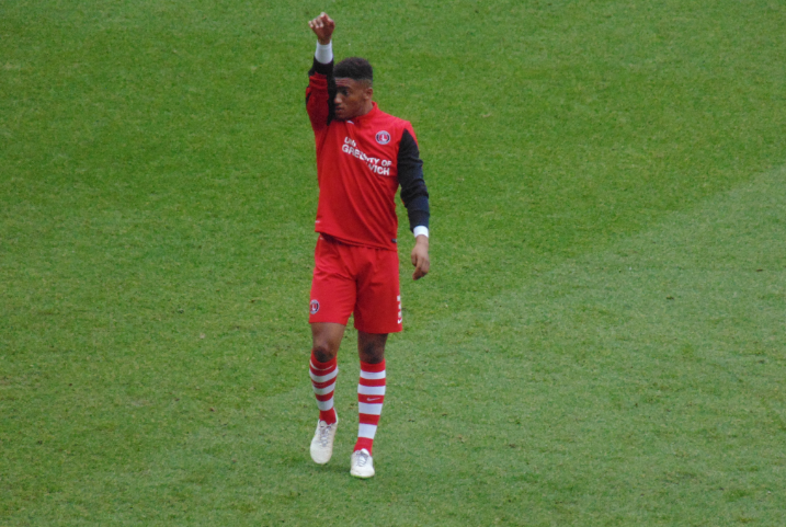 Joe Gomez